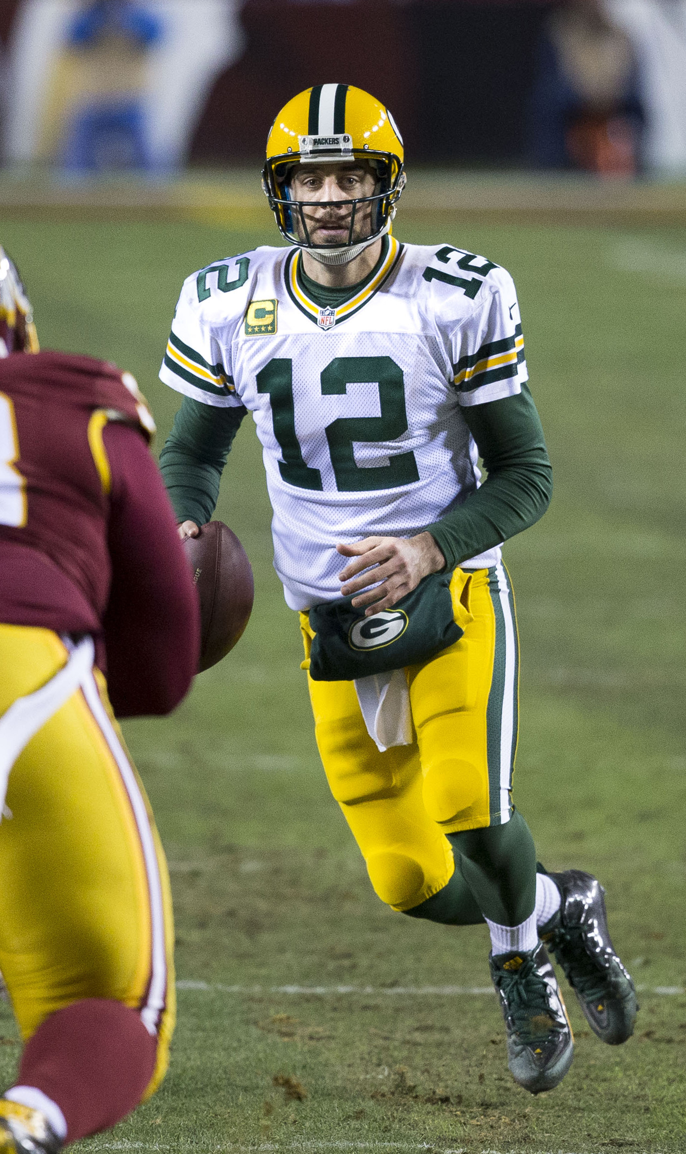 Packers at Redskins Wildcard Game 01/10/16